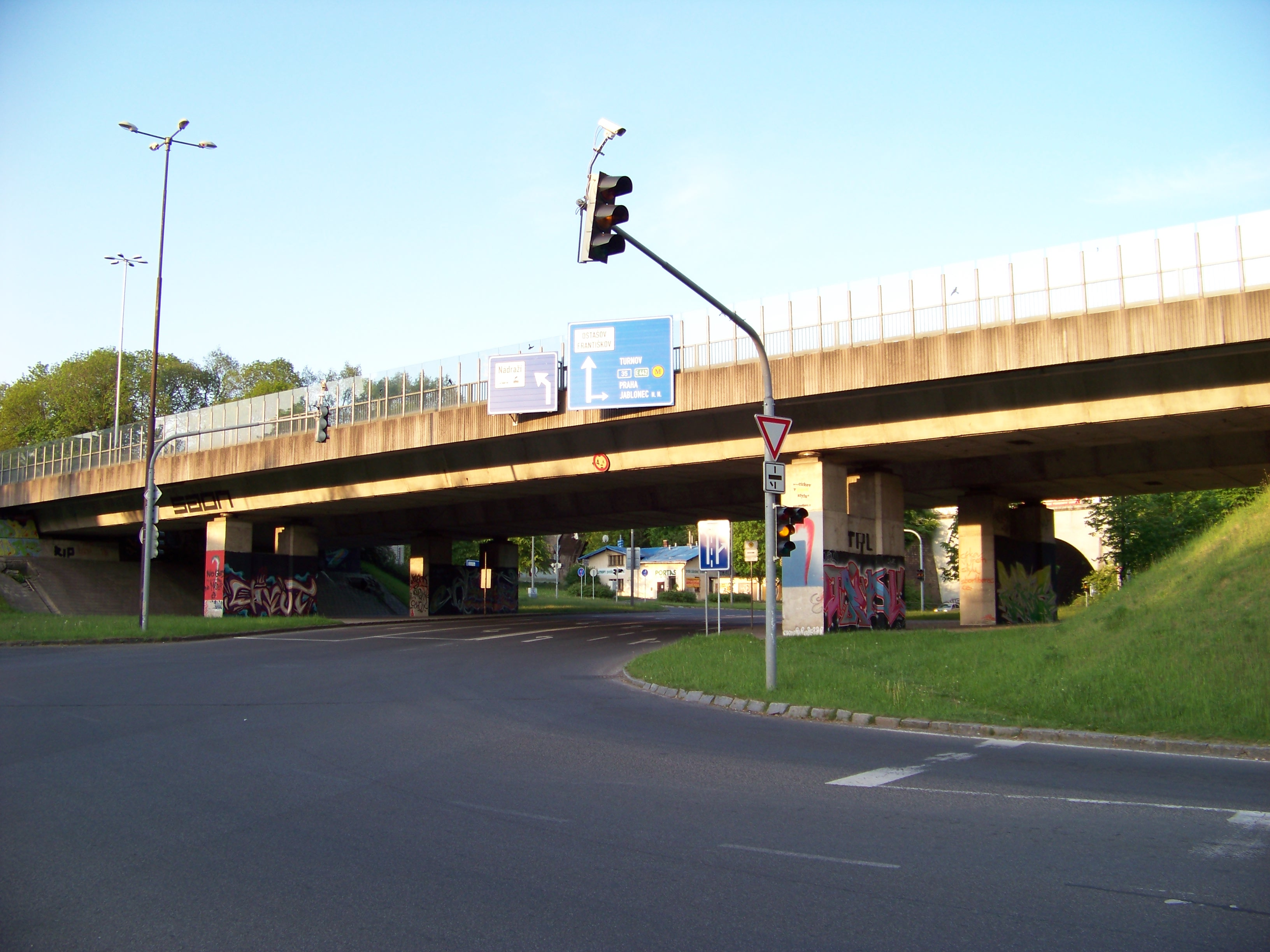 Liberec-Františkov, Liberec District, Liberec Region, the Czech Republic. Žitavská street, a bridge of the road I/35.